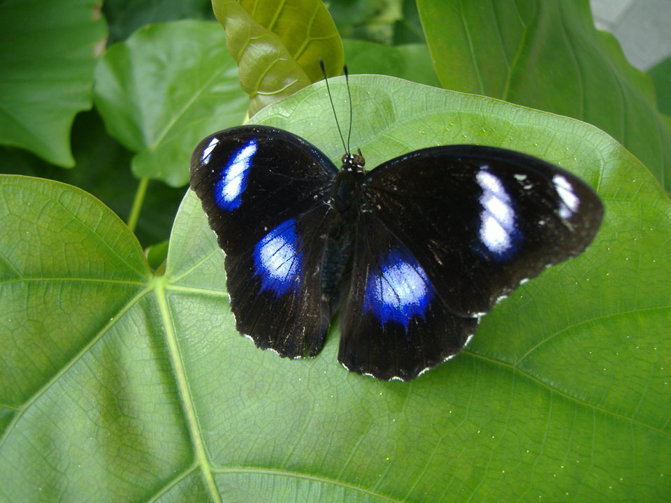 Hypolimnas bolina リュウキュウムラサキ Photo by Comacontrol - Aug. 2006